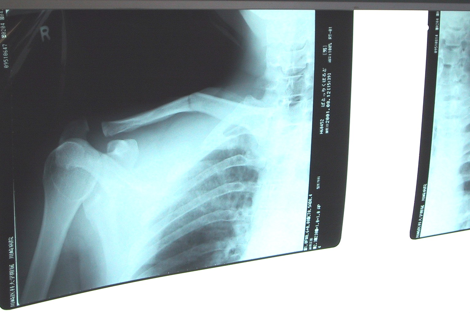 Fracture of the right clavicle (x-ray).Broken Collar Bone